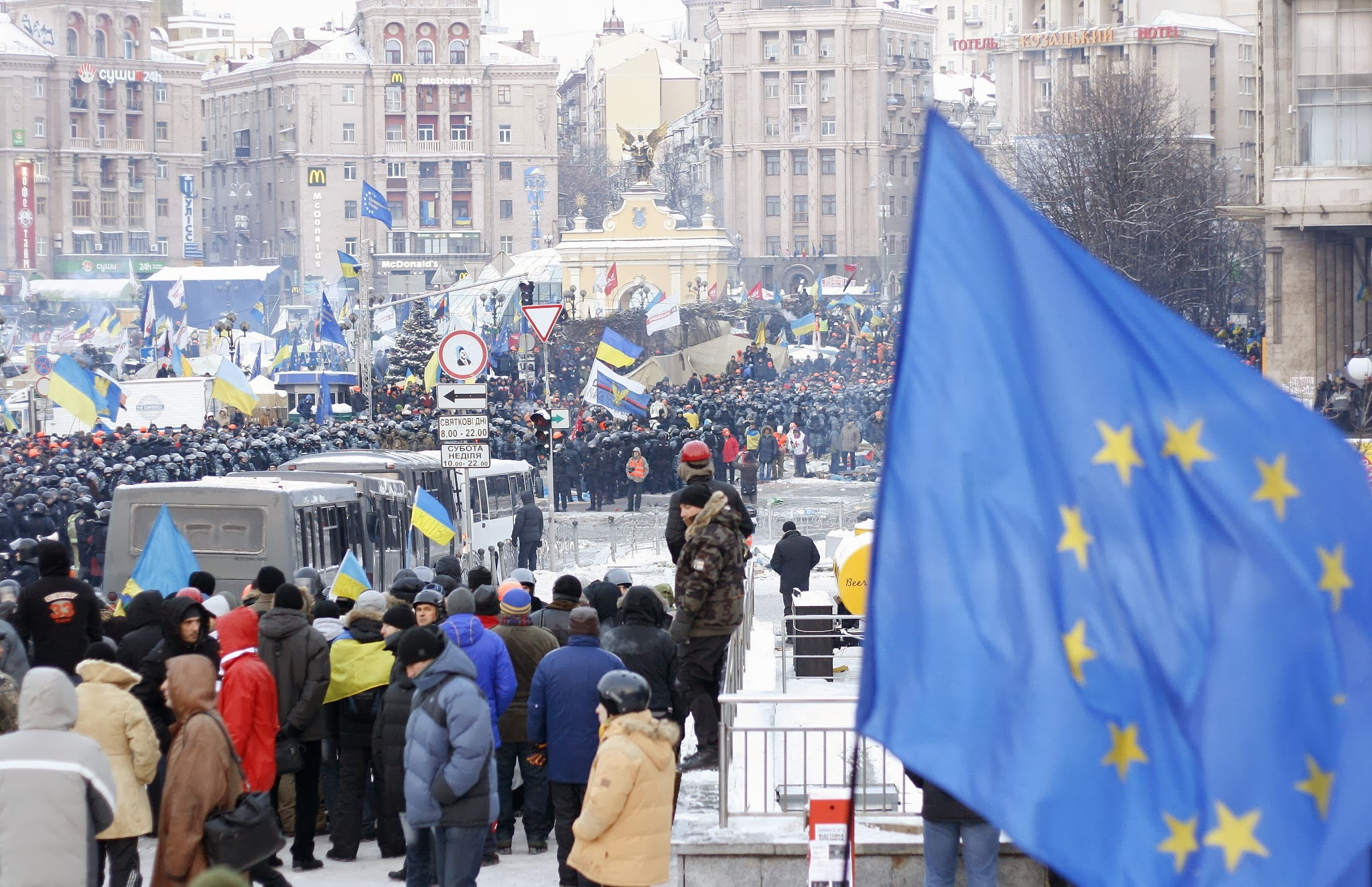 Euromaidan in Kyiv on the night of 11 December 2013 (night of the second attack)